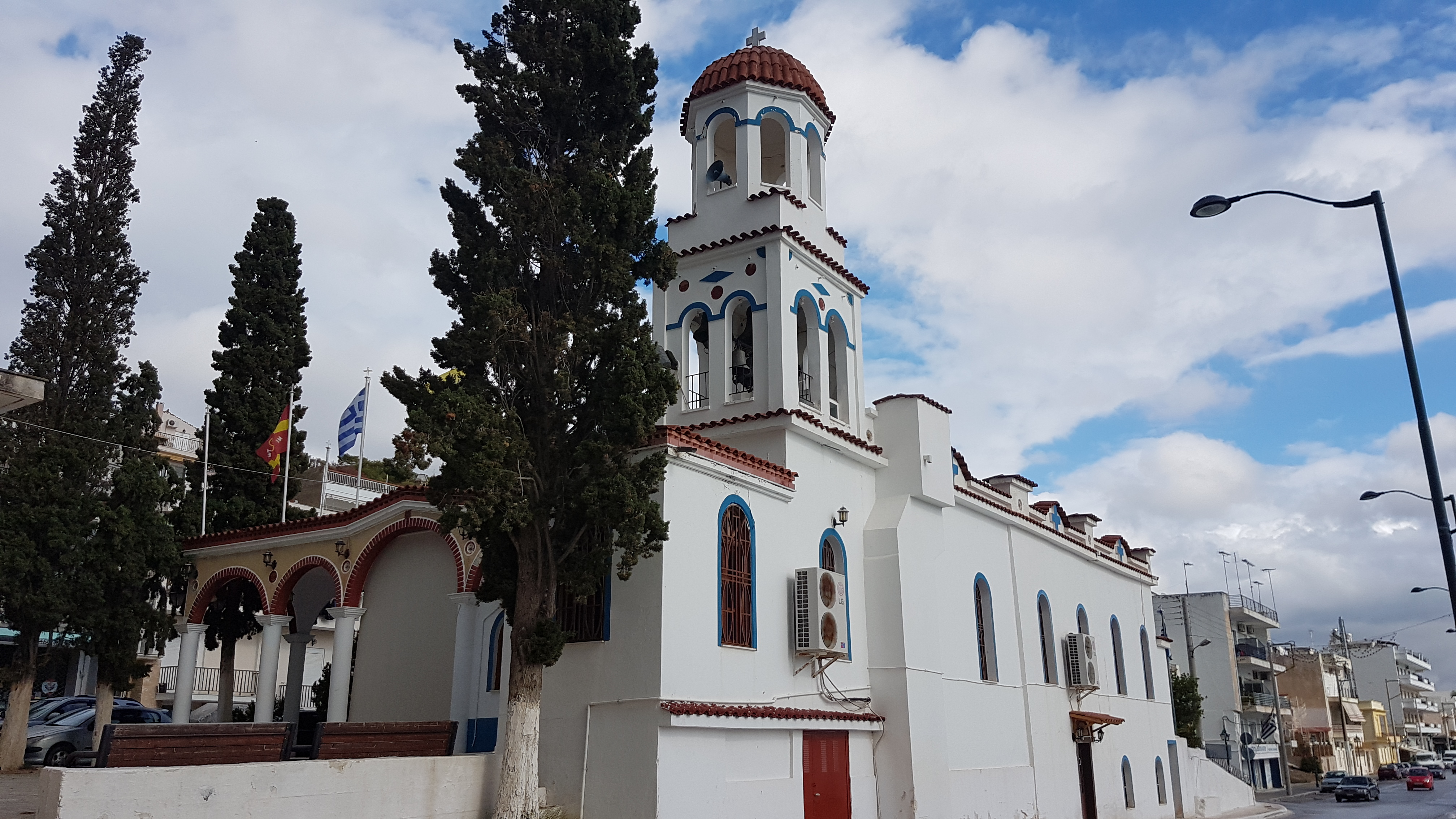 Salamis (City), District Agios Nikolaos, Salamis, Greece: Church of Agios Nikolaos.